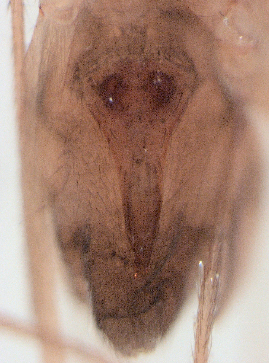 ventral view of abdomen of female Pahoroides balli, showing scape